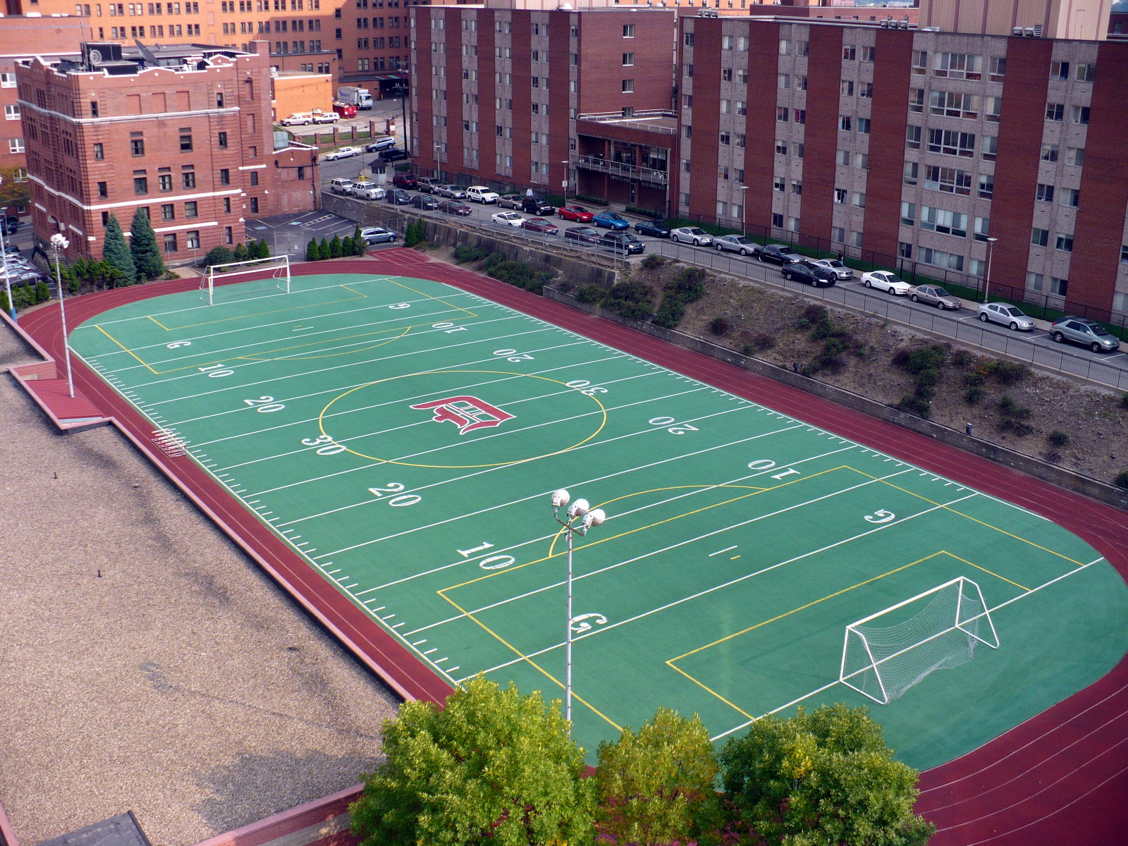 McCloskey Field at Duquesne University, used for outdoor intramural activities.